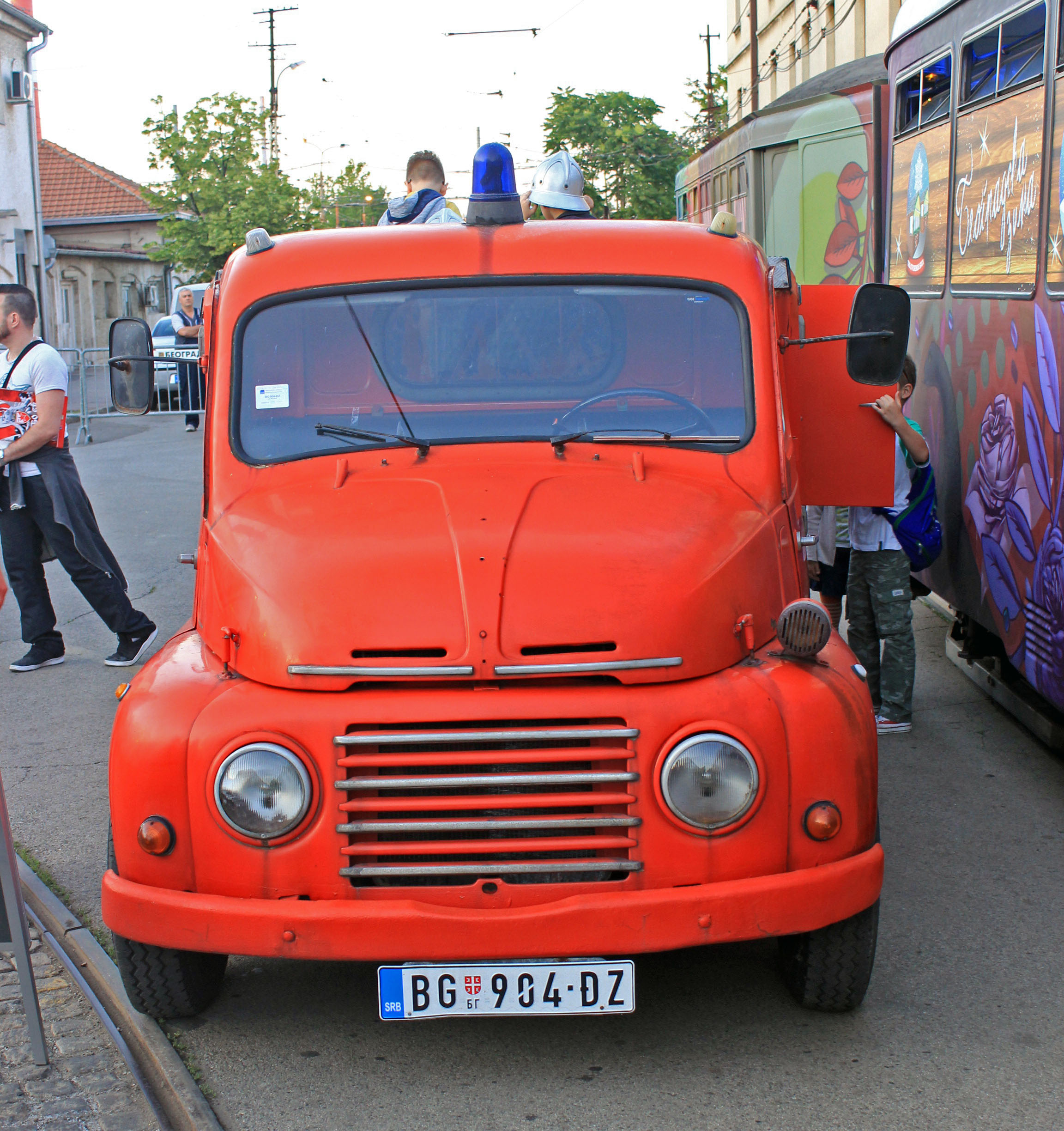 Old fire truck Zastava 620B of GSP Beograd public transport company at Dorćol depot on display during the Night of museum, 2016. Truck is still in service.